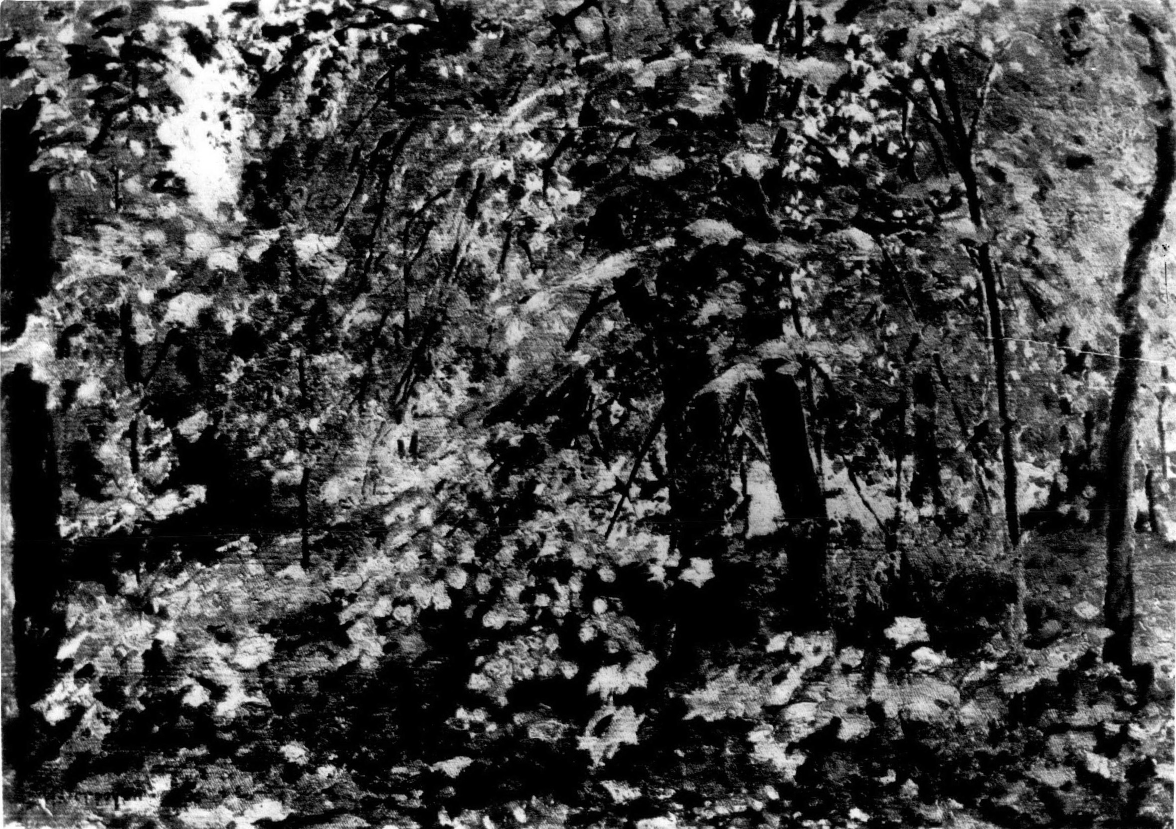 Golden autumn (study by Ilya Ostroukhov, 1885)